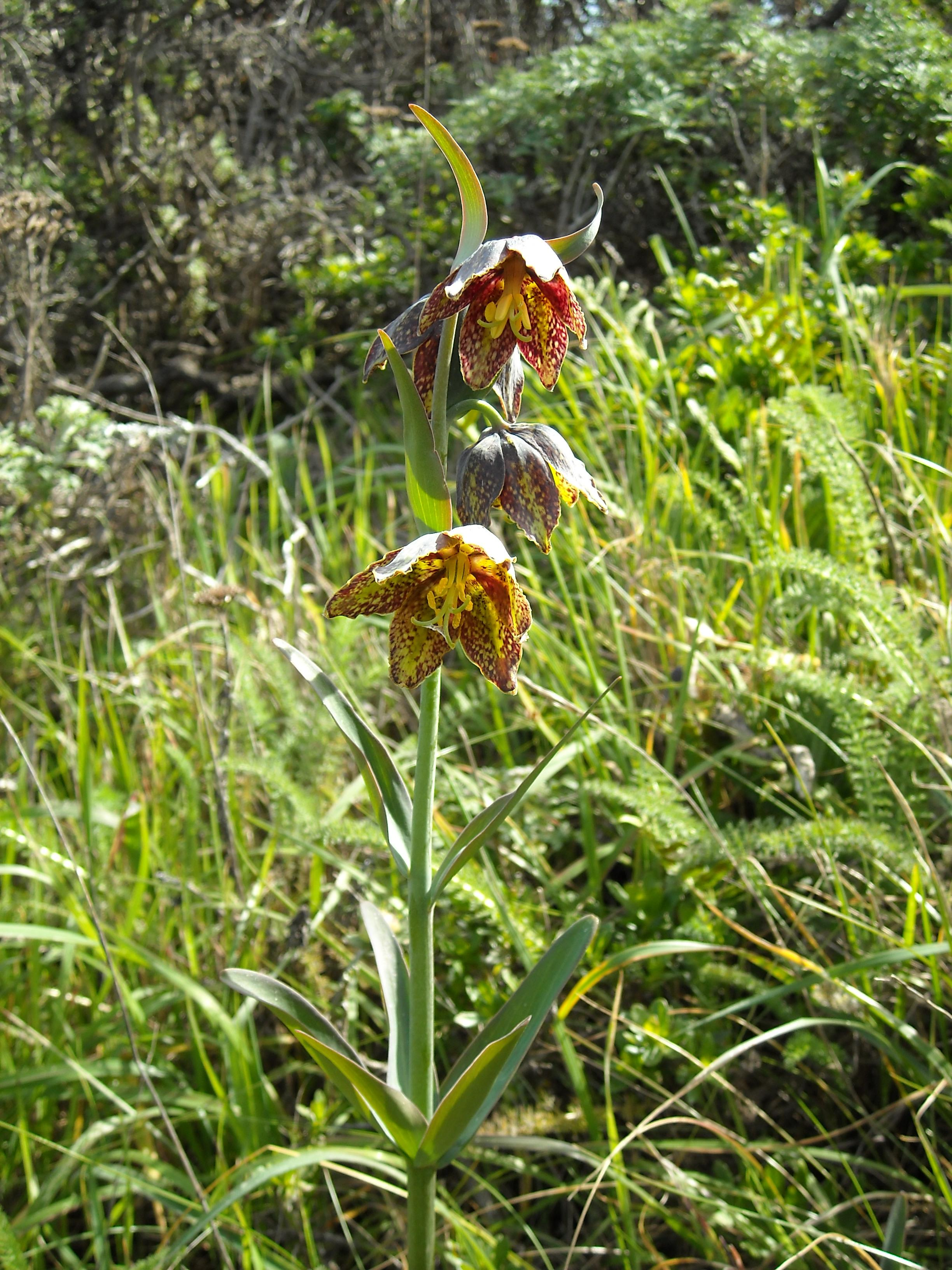 A Fritillaria affinis. I did not know the rarity of this plant until a friend pointed it out.